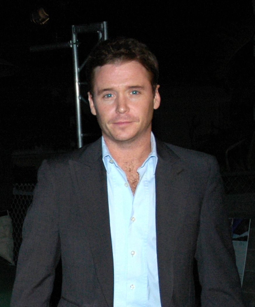 American actor Kevin Connolly at the Ford and project7ten Sustainable/Green Home opening party. Photo released by the Ford Motor Company.